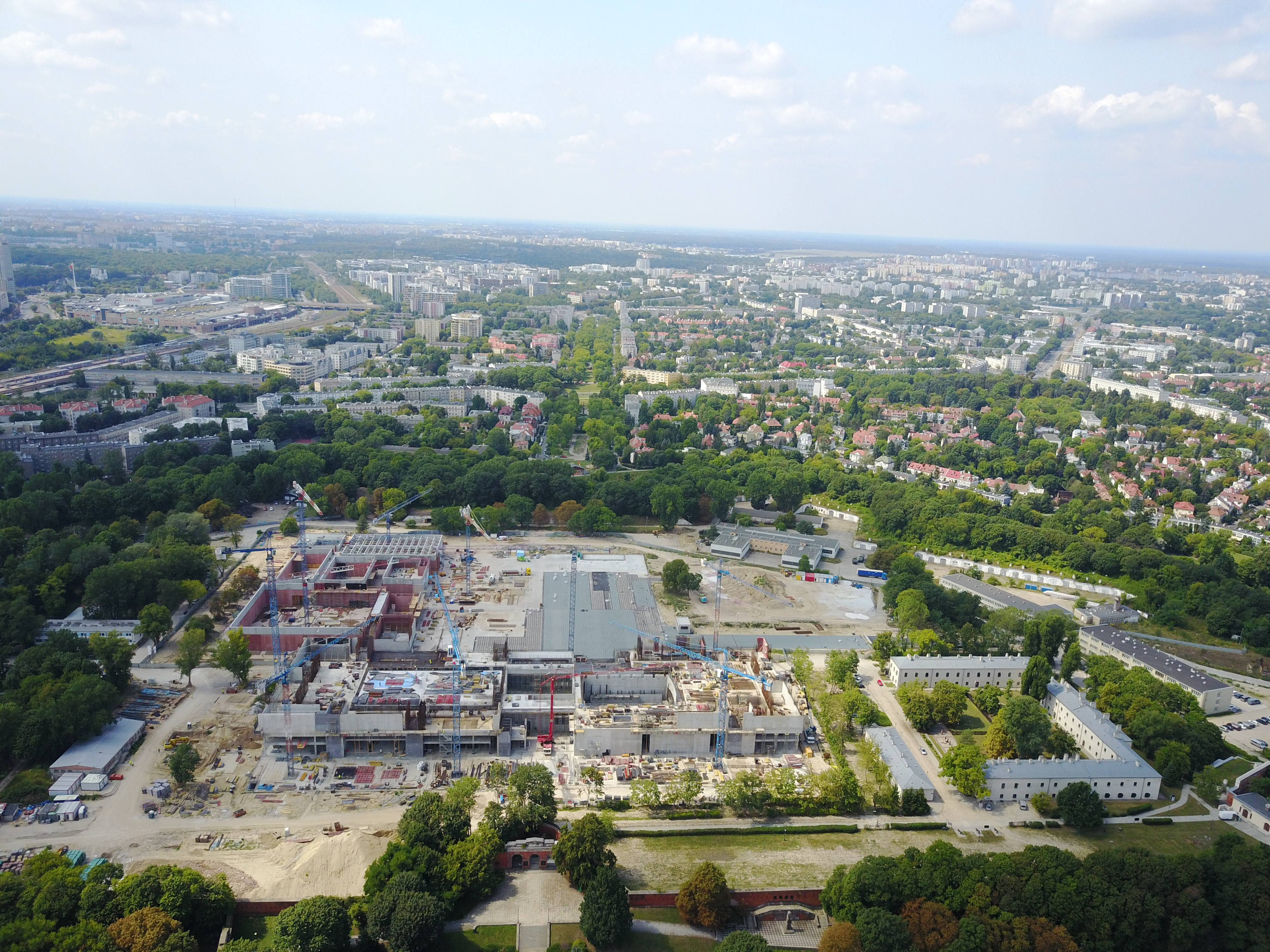 Warsaw Citadel